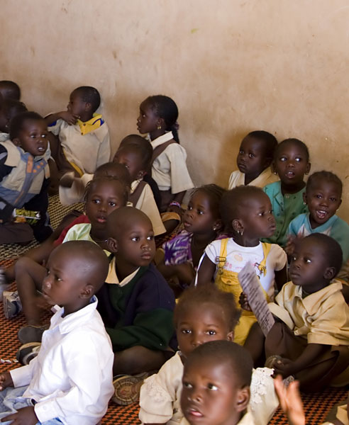 Young children in class in The Gambia